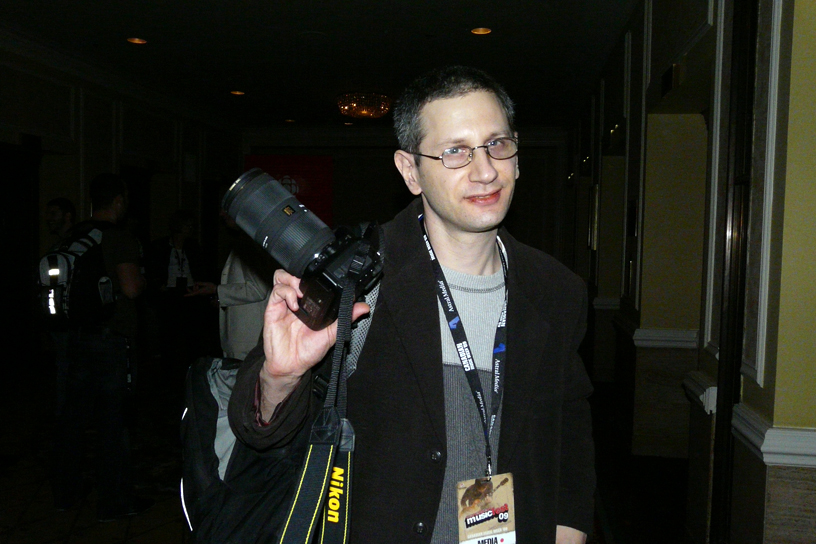 Media Producer Richard Budman of [1]